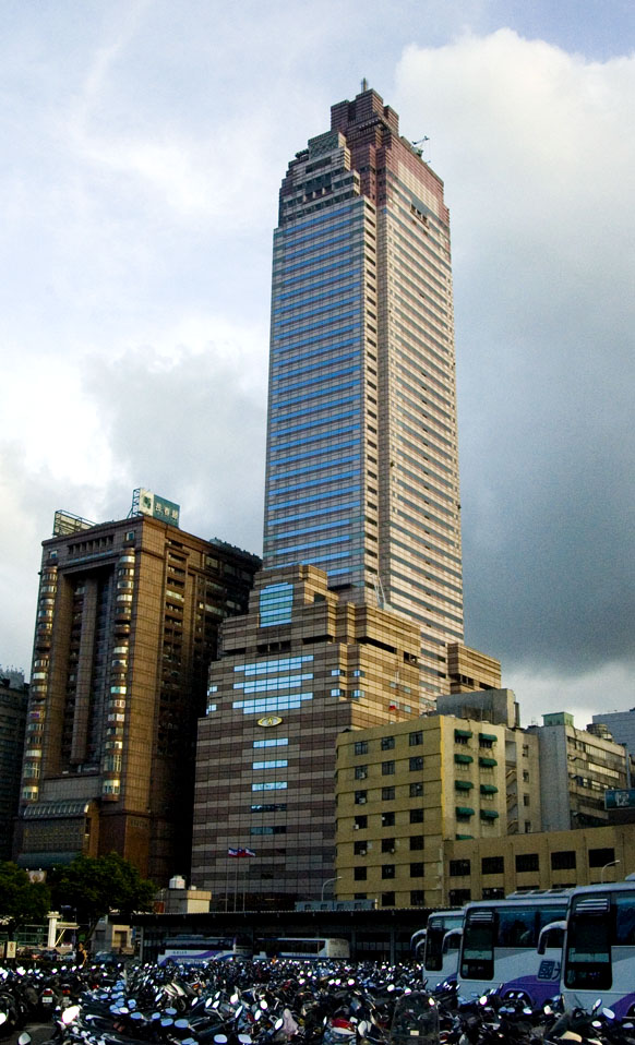 Shin Kong Life Tower in Taipei, Taiwan, viewed from Taipei Main Station.